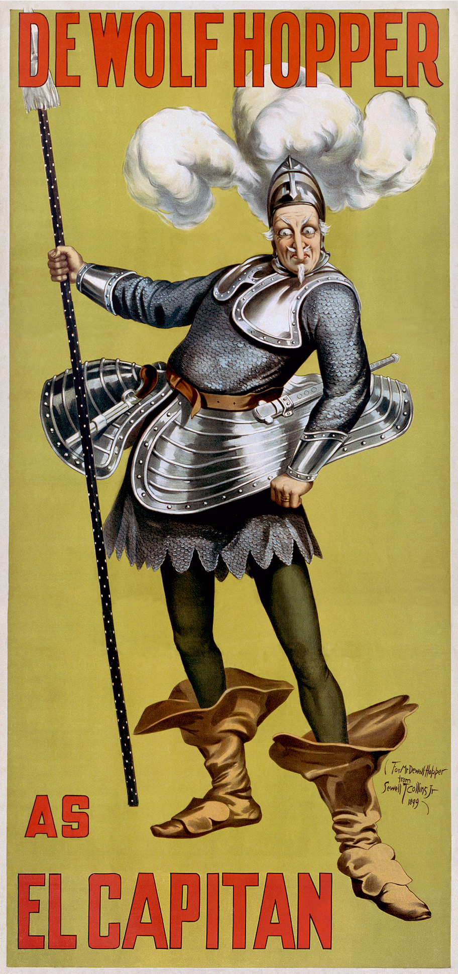 A poster for the original production of John Phillip Sousa's operetta El Capitan (1896), starring DeWolf Hopper.